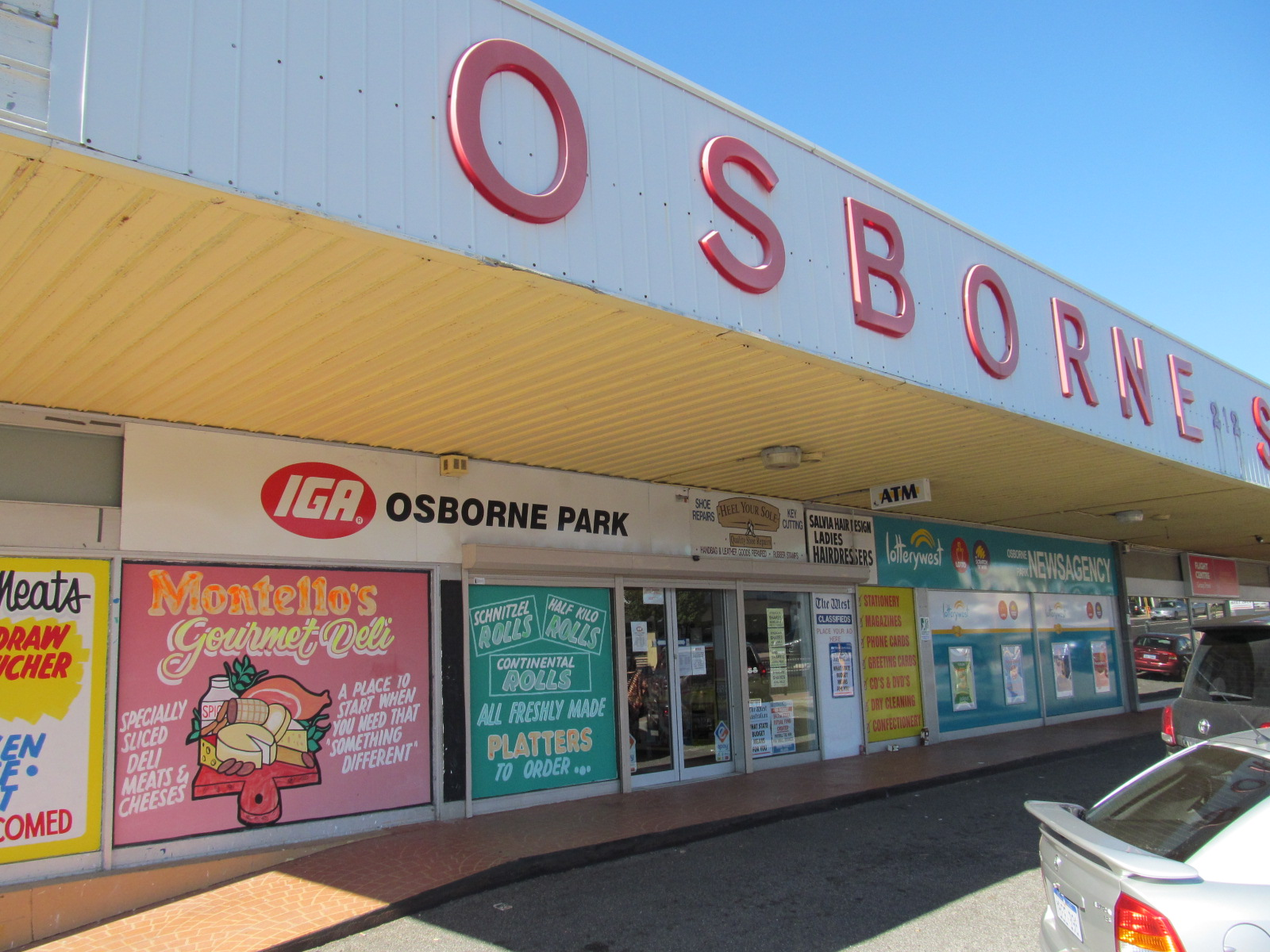 Osborne Park shopping centre on Main Street, just south of Royal Street, Osborne Park, Perth. Major Tenant=Progressive IGA Osborne Park